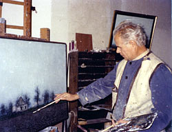 Photo of artist Milan Kecic. Photo taken in his studio in Novi Sad, Serbia approx 1975 by his family member. Courtesy of Galerija Paleta Sremski Karlovci Srpskohrvatski / српскохрватски: Fotografija Milana Kečića. Snimak napravljen u Kečićevom ateljeu u Novom Sadu oko 1975 od strane člana porodice